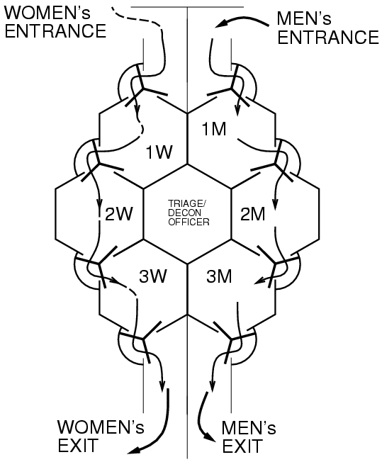 If anyone would like to make this into SVG, here is the original drawing that I made in idraw, which is a proper subset of PostScript: Decon pipeline demonstrated at Deconference 2001 I drew this diagram to illustrate my design for a decon facility that we built at 80 Spadina in July 2001 for the Anthrax Ready Mailroom drills. This diagram was for a patent I filed in 2000, on the design of a decon facility. I license it for use in Wikipedia, under .